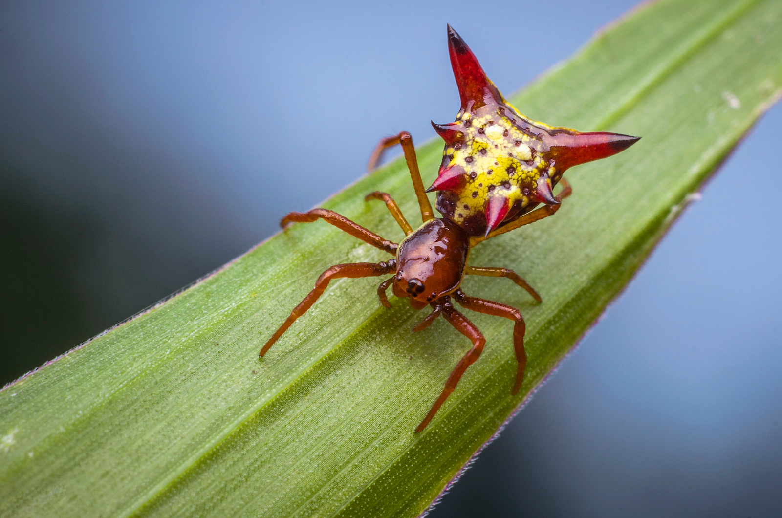 Micrathena sagittata, Arrowshaped Micrathena, female